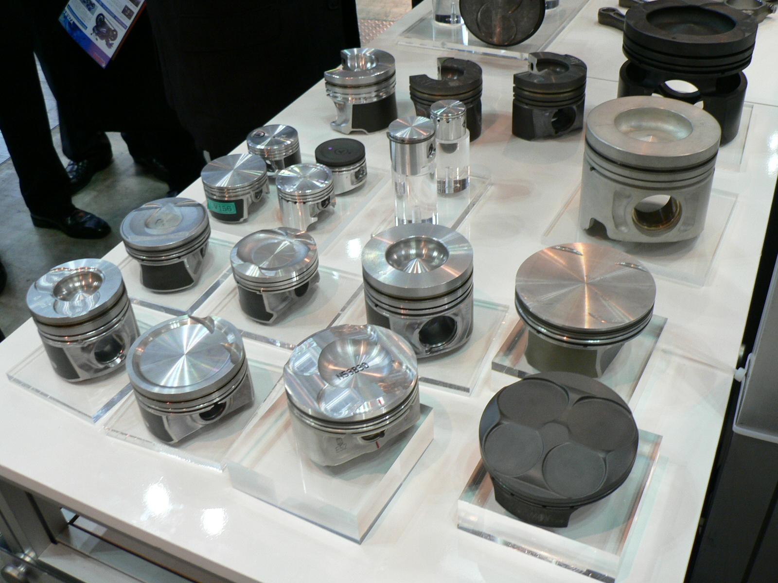 Pistons by MAHLE.